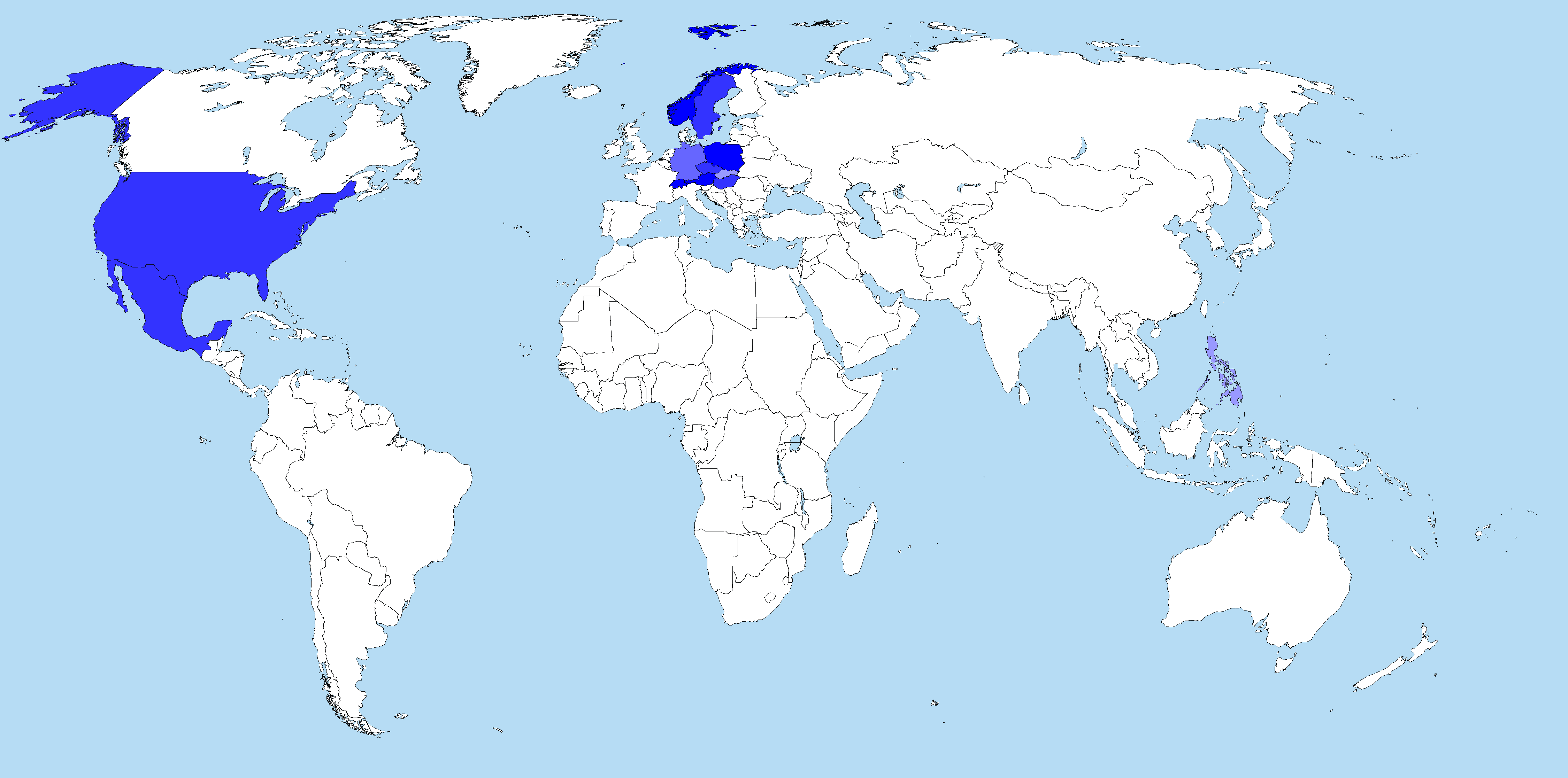 Countries with a higher peak position are more blueish.